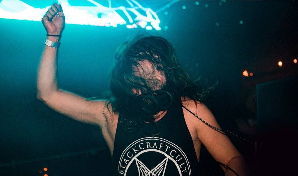 Seven Lions Live in Toronto CAN 2015